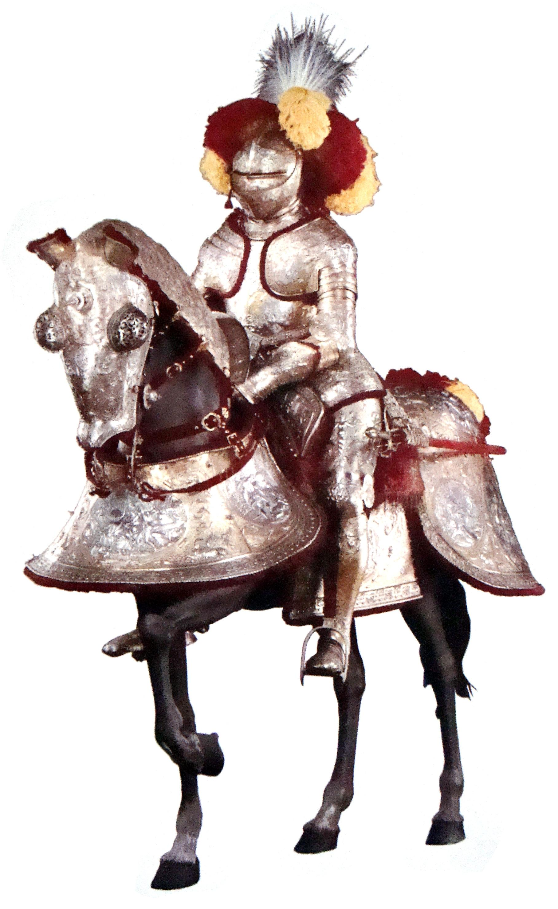 Parade armour made by Eliseus Libaerts in 1563/4 for Eric XIV of Sweden.